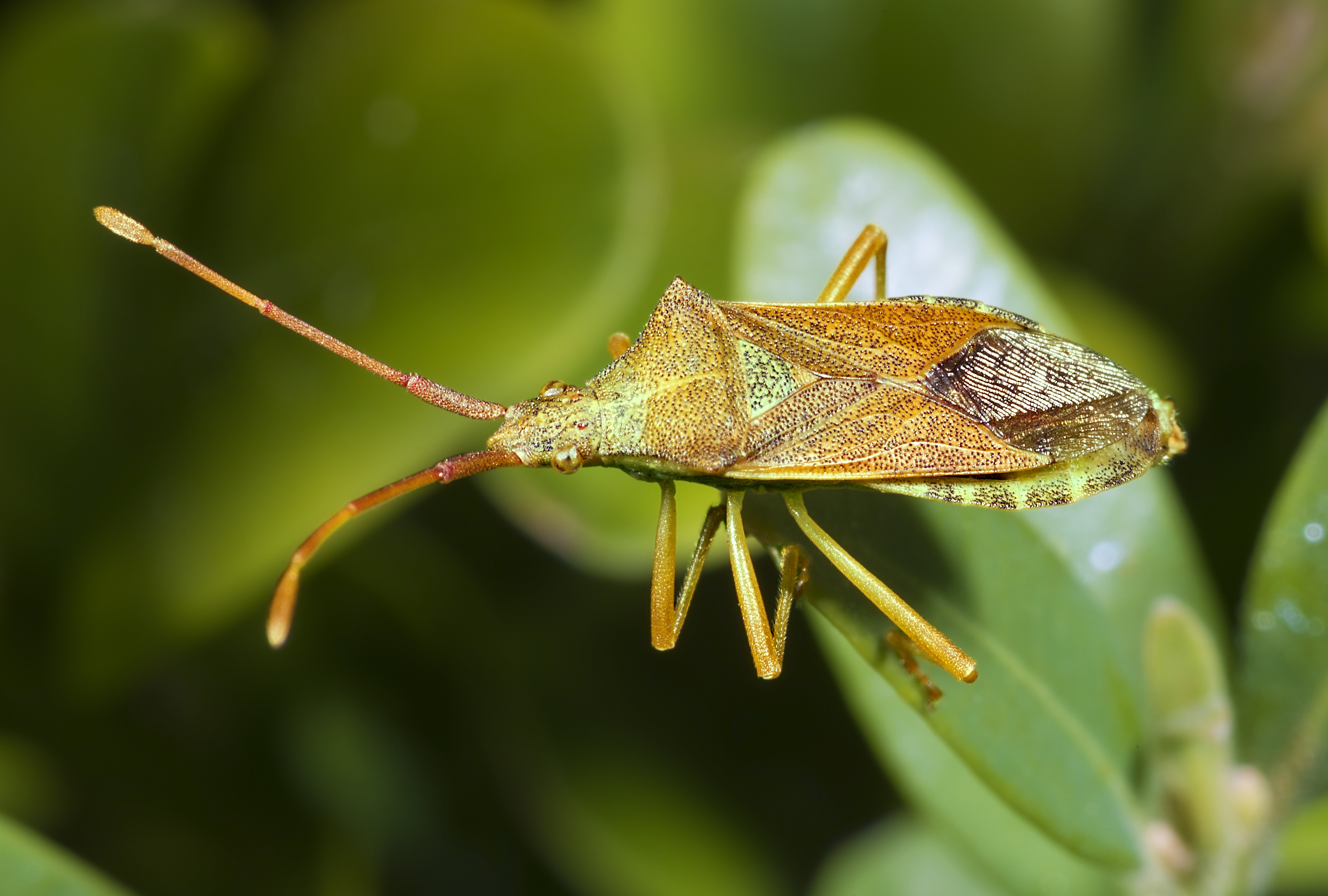 Gonocerus acuteangulus